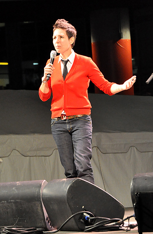 Comedian Elvira Kurt introduces The Topp Twins at Yonge-Dundas Square